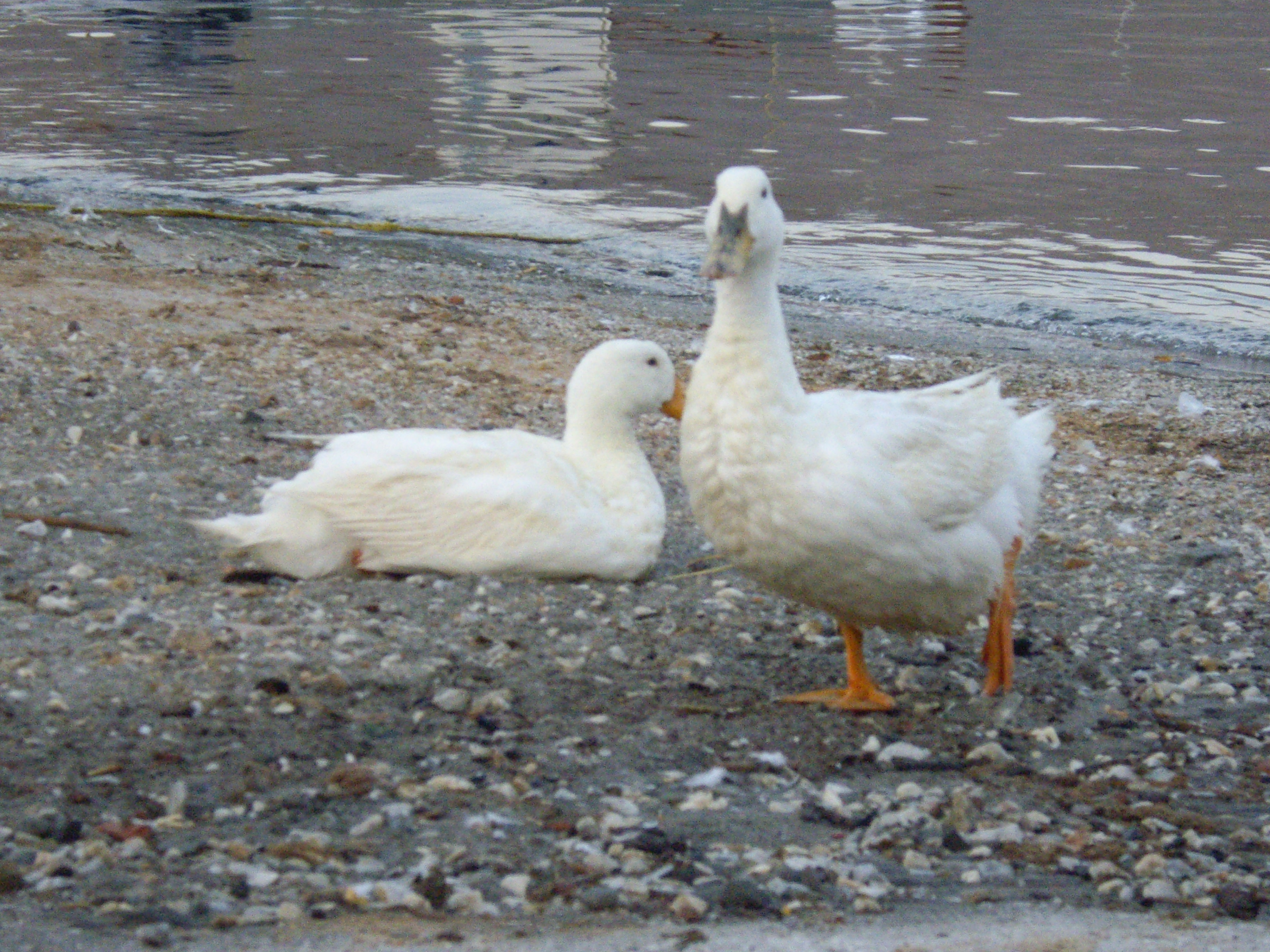 This is a photography of Natura 2000 protected area with ID GR4110002